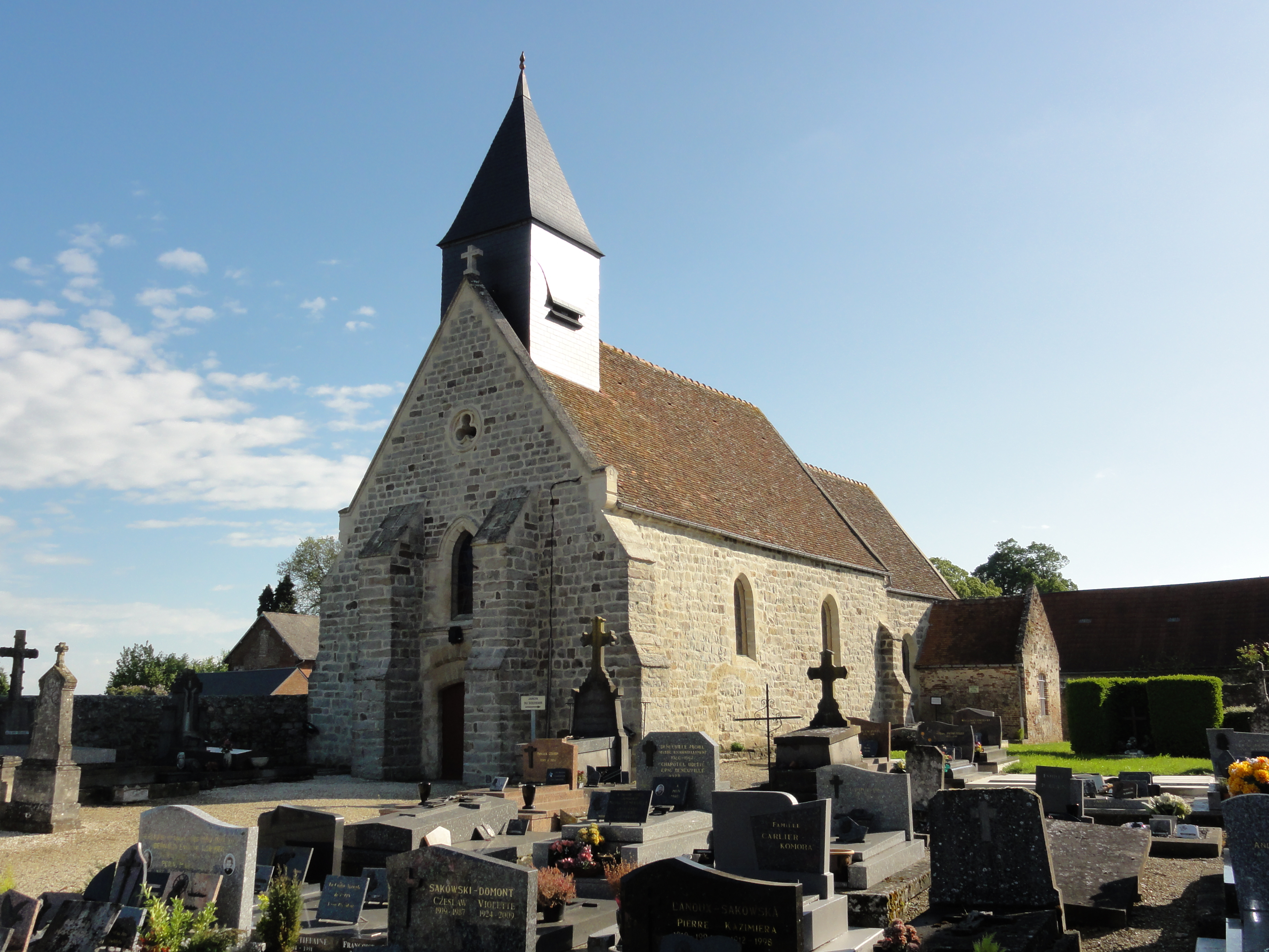 Cerny-lès-Bucy (Aisne) église